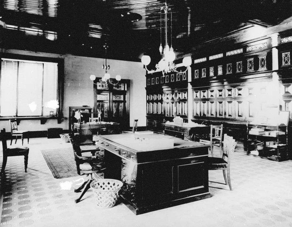 Internal view of a room in the Queensland National Bank, Brisbane, ca. 1889.